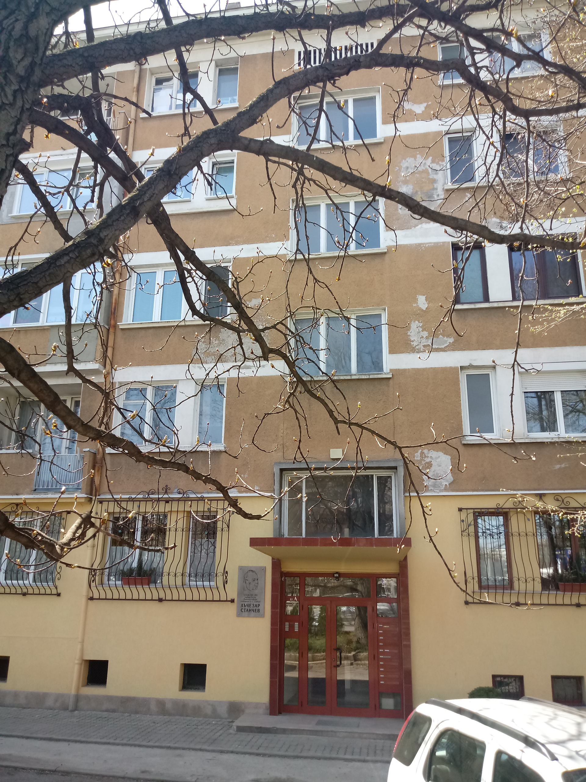 Luchezar Stanchev home with memorial plaque, 8 Tsarigradsko Shose Blvd., Sofia